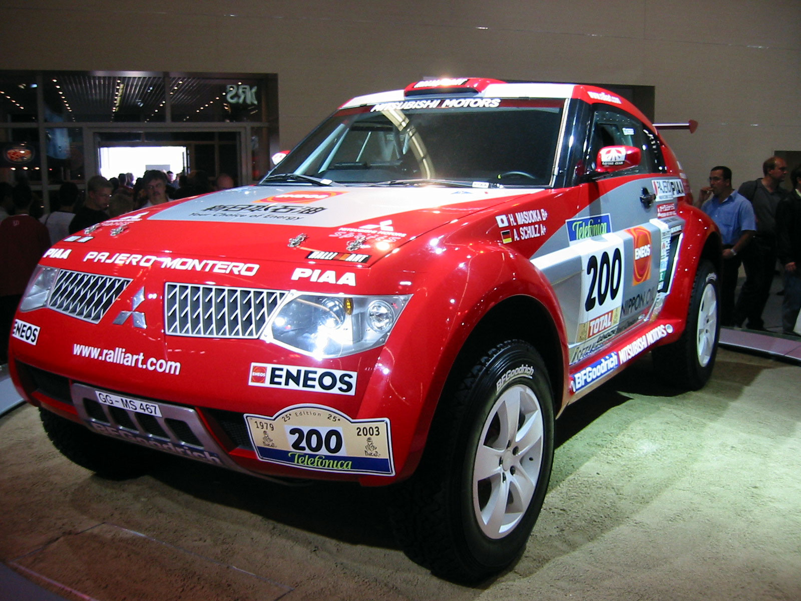 Mitsubishi Pajero Montero winning vehicle of Hiroshi Masuoka and Andrea Schulz (Paris Dakar 2003 at the IAA 2003